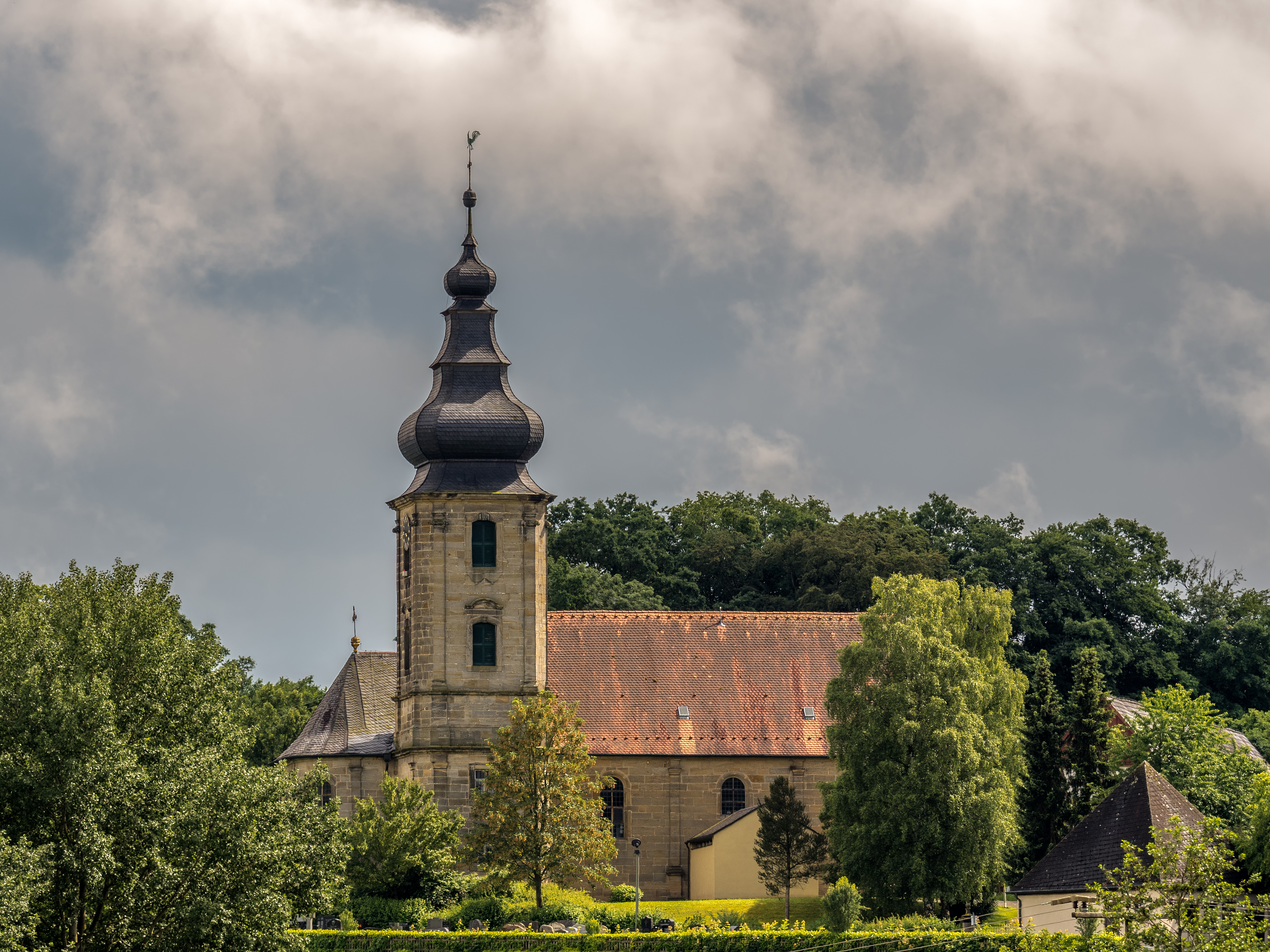 Kath. Parish and Pilgrimage Church of Mary Immaculate Conception